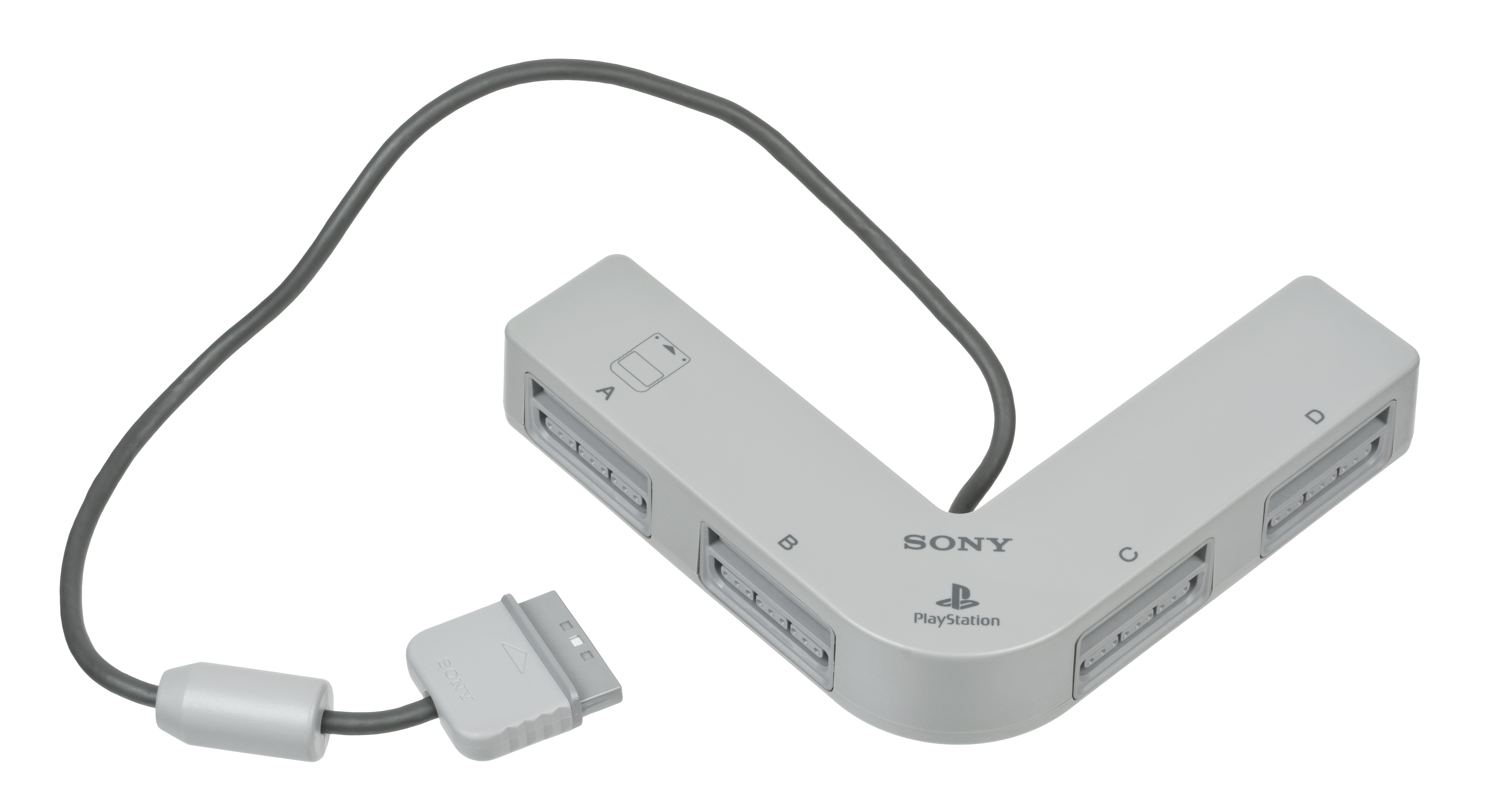 The official PlayStation multitap adaptor, model SCPH-1070, that allows for more than two players at once.